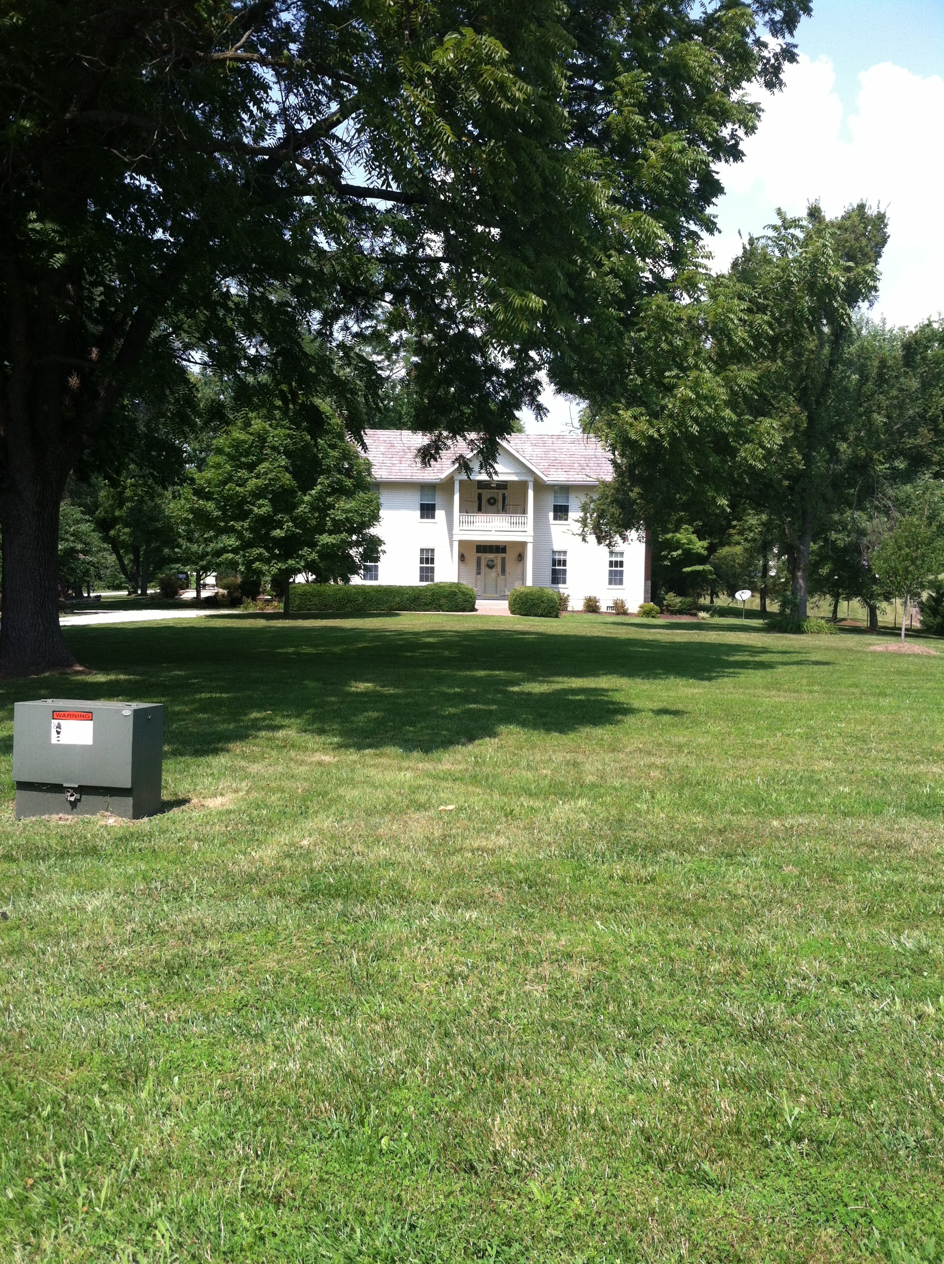 William B. Hunt House near Huntsdale, Missouri. August 2013.